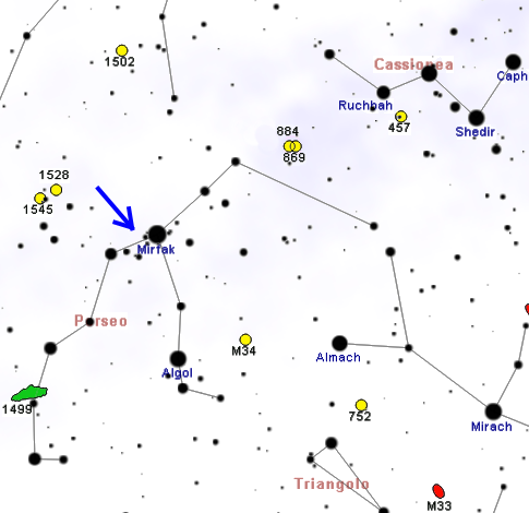 Mel20 map